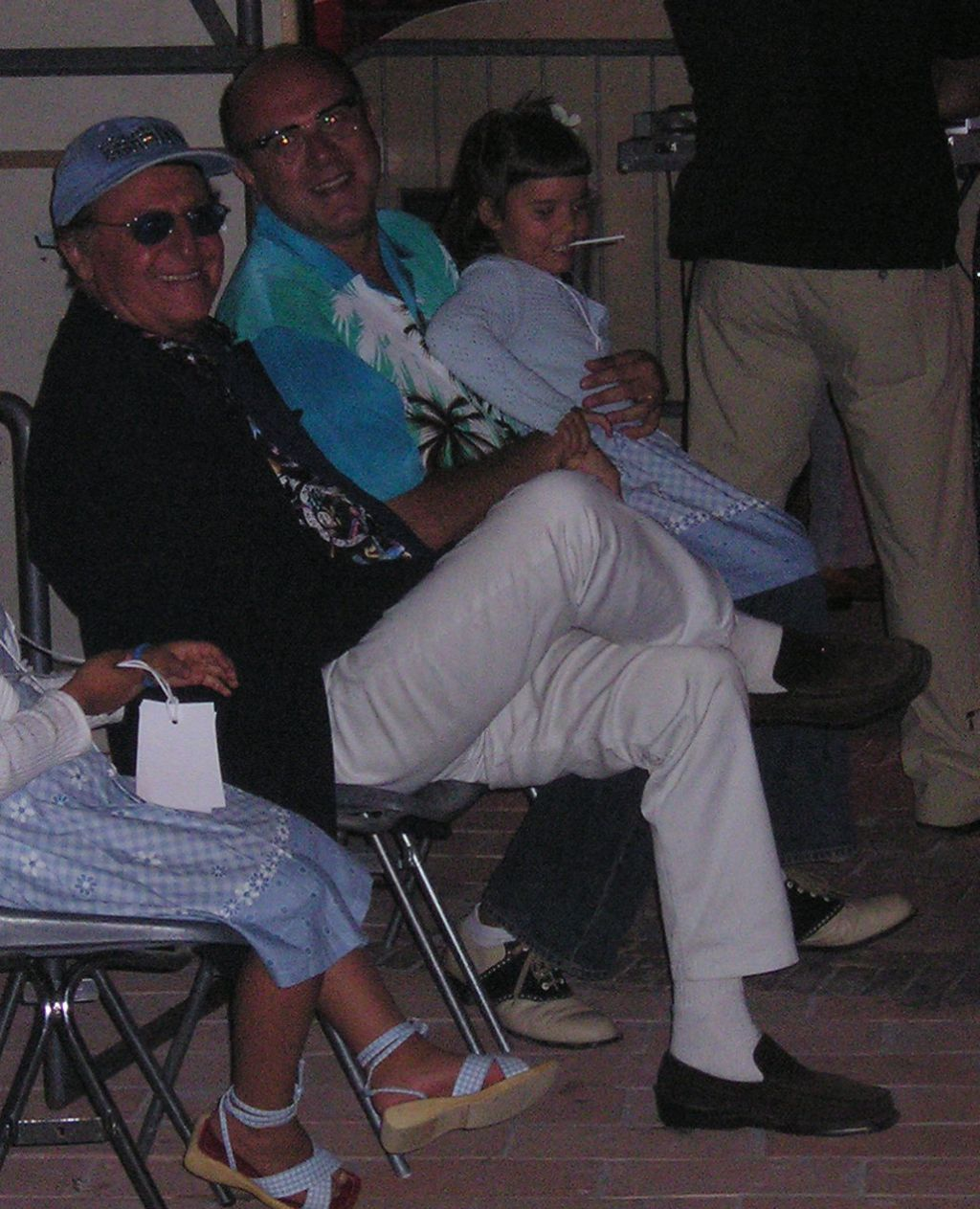 Italian Showman Renzo Arbore